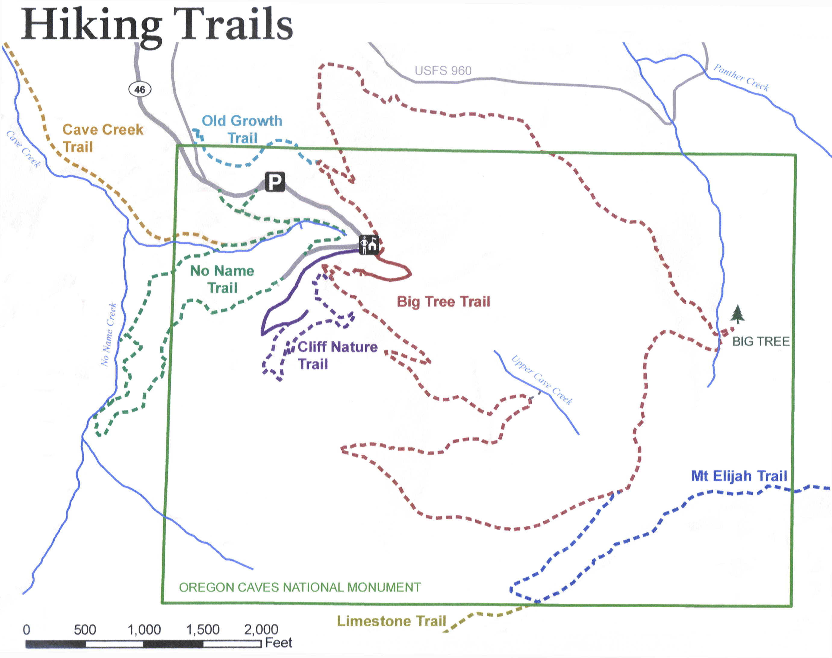 Map of the hiking trails in and near Oregon Caves National Monument in the U.S. state of Oregon. The monument, in the Klamath Mountains, is near the Oregon–California border.